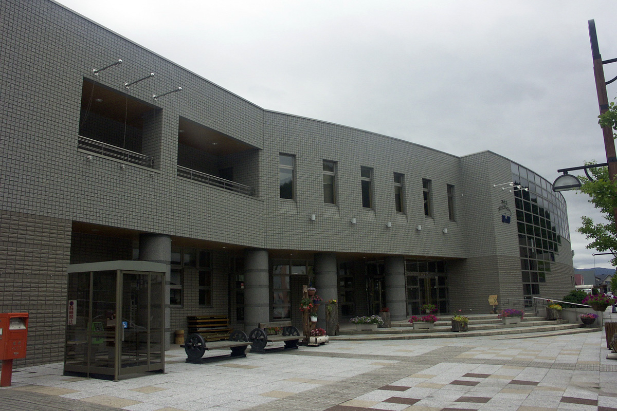 Hokkaido Chihokukogen Railway Oketo Station